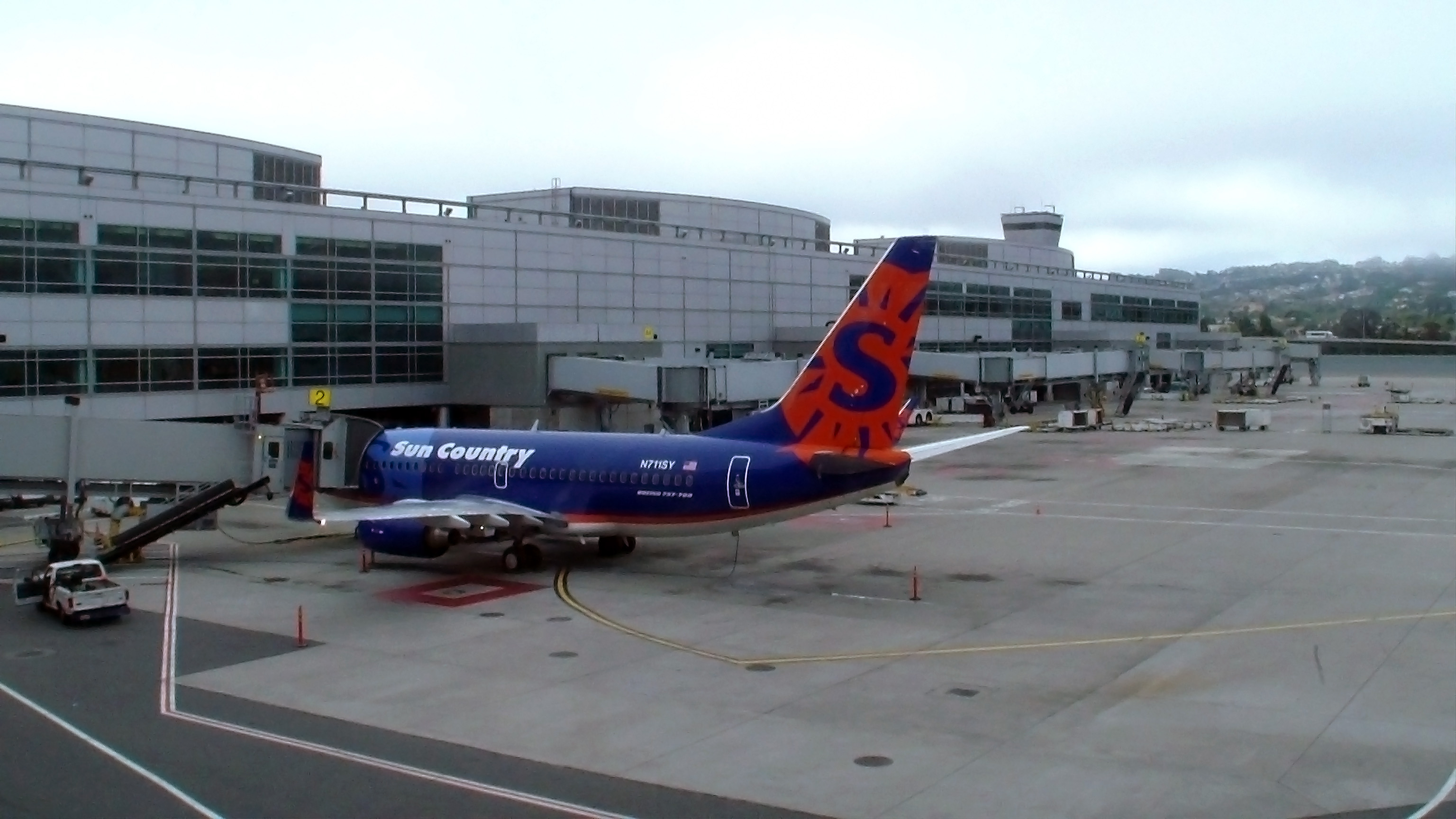 San Francisco International Terminal A seen in the Morning